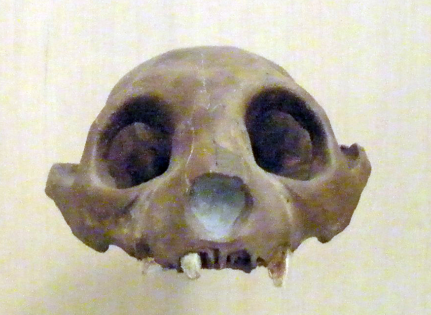 Skeleton of Archaeolemur majori, a fossil primate